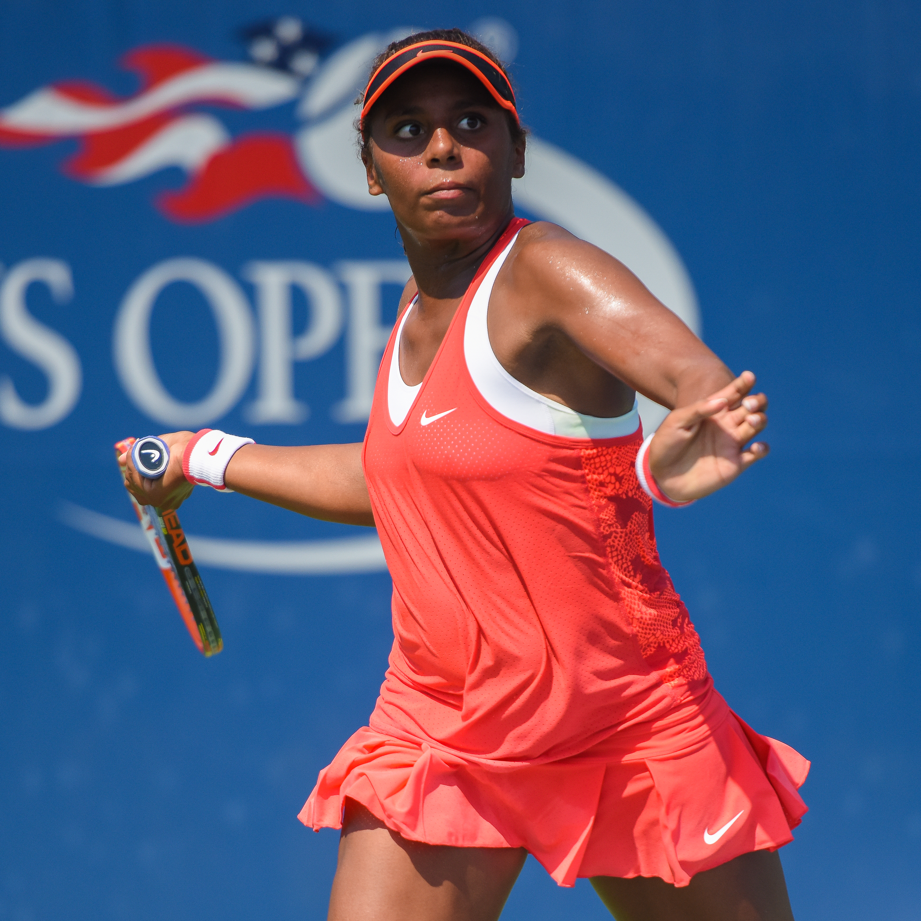 August 25, 2015 Court 5 Flushing, NY